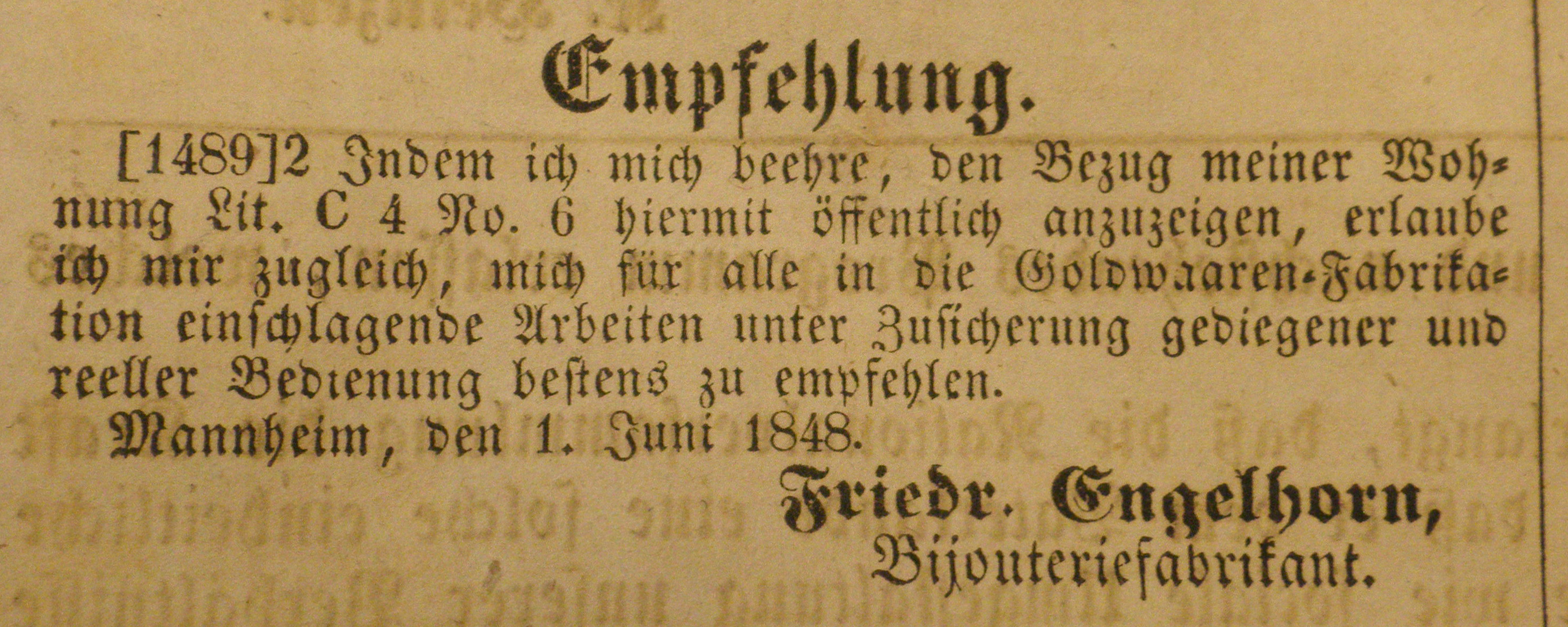 advertisement of Friedrich Engelhorn in the newspaper "Mannheimer Abendzeitung", published 9 June 1848